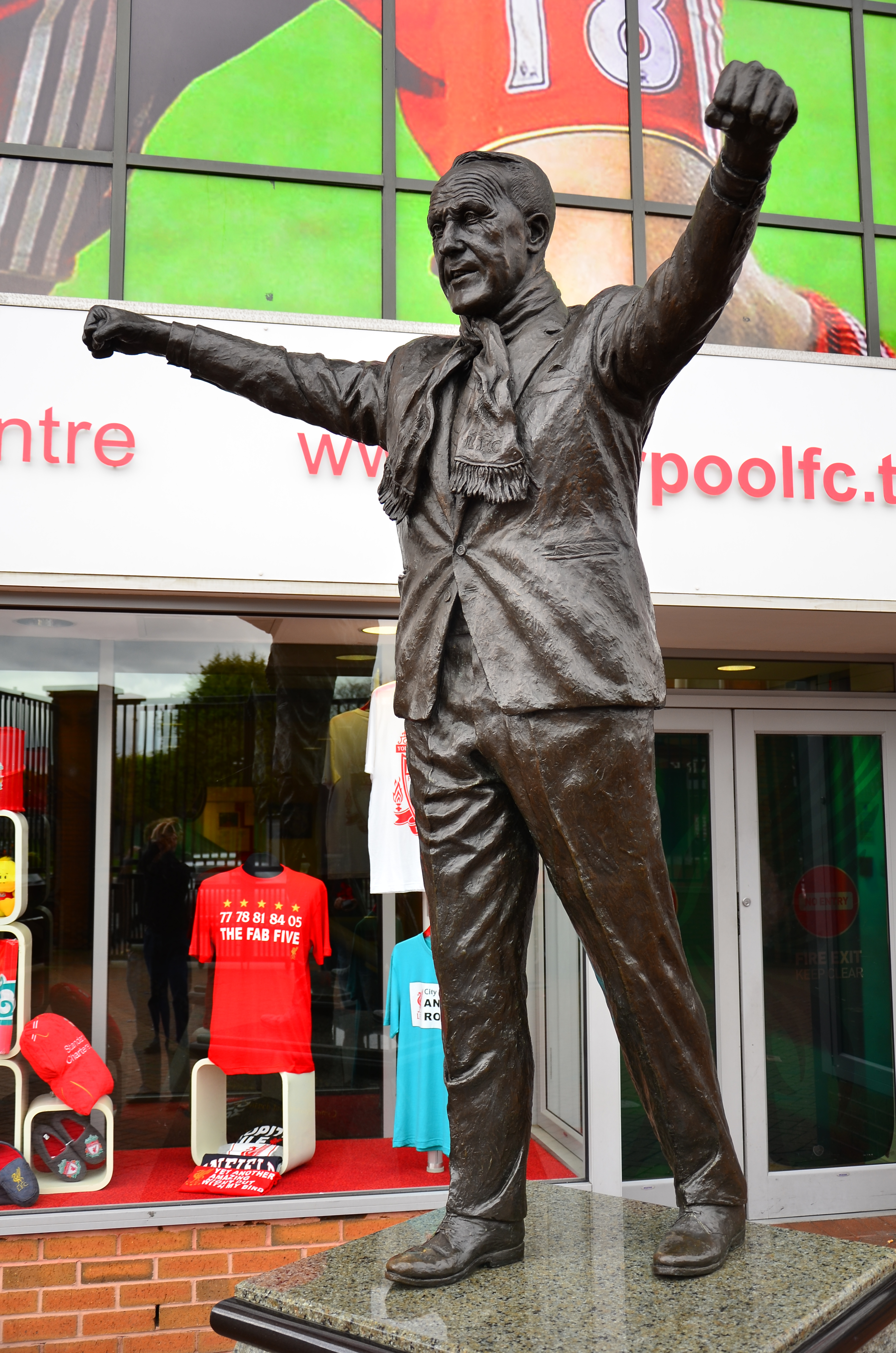 Statue of Bill Shankly at Anfield